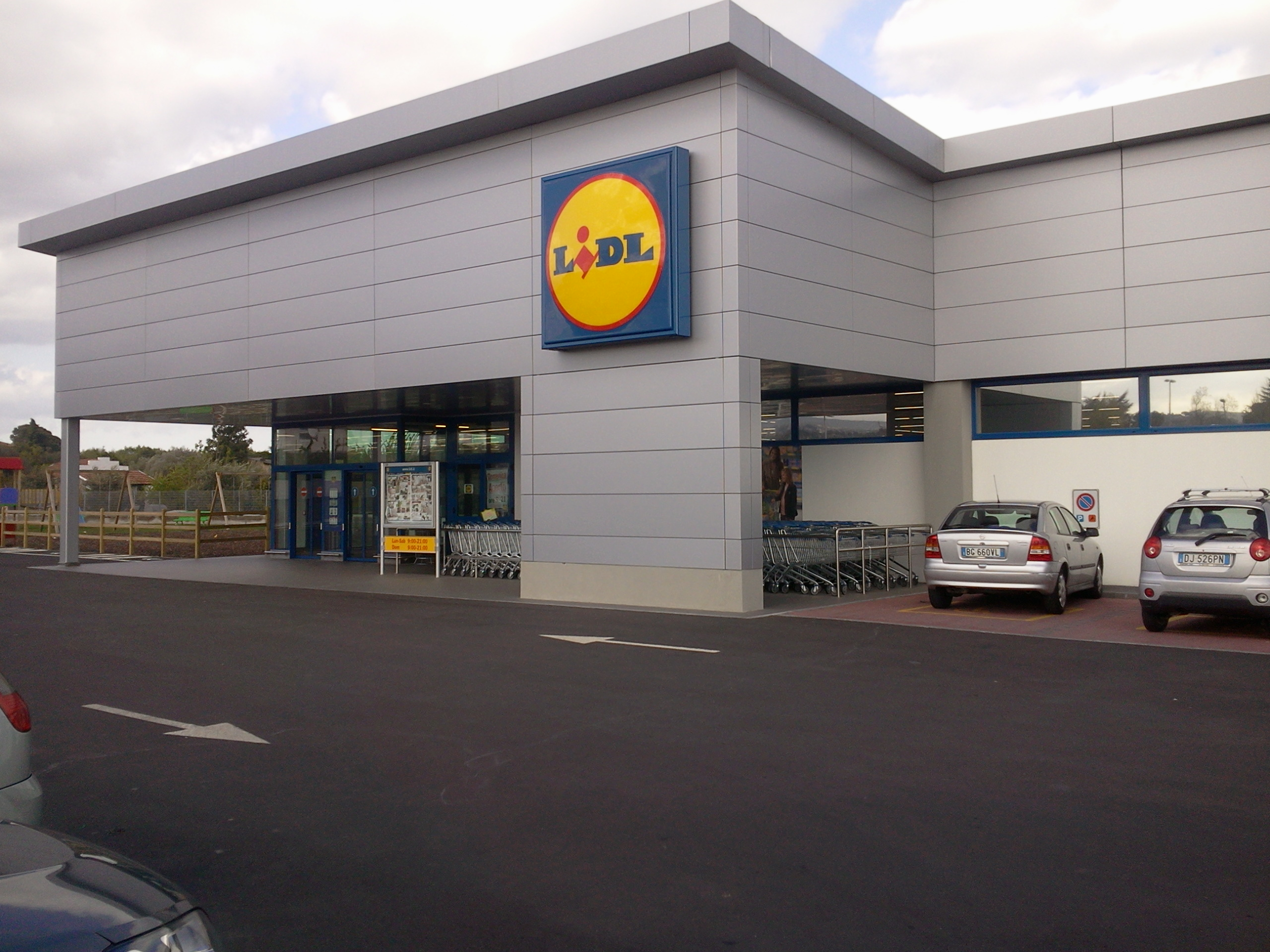 Lidl in San Giovanni la punta (CT)